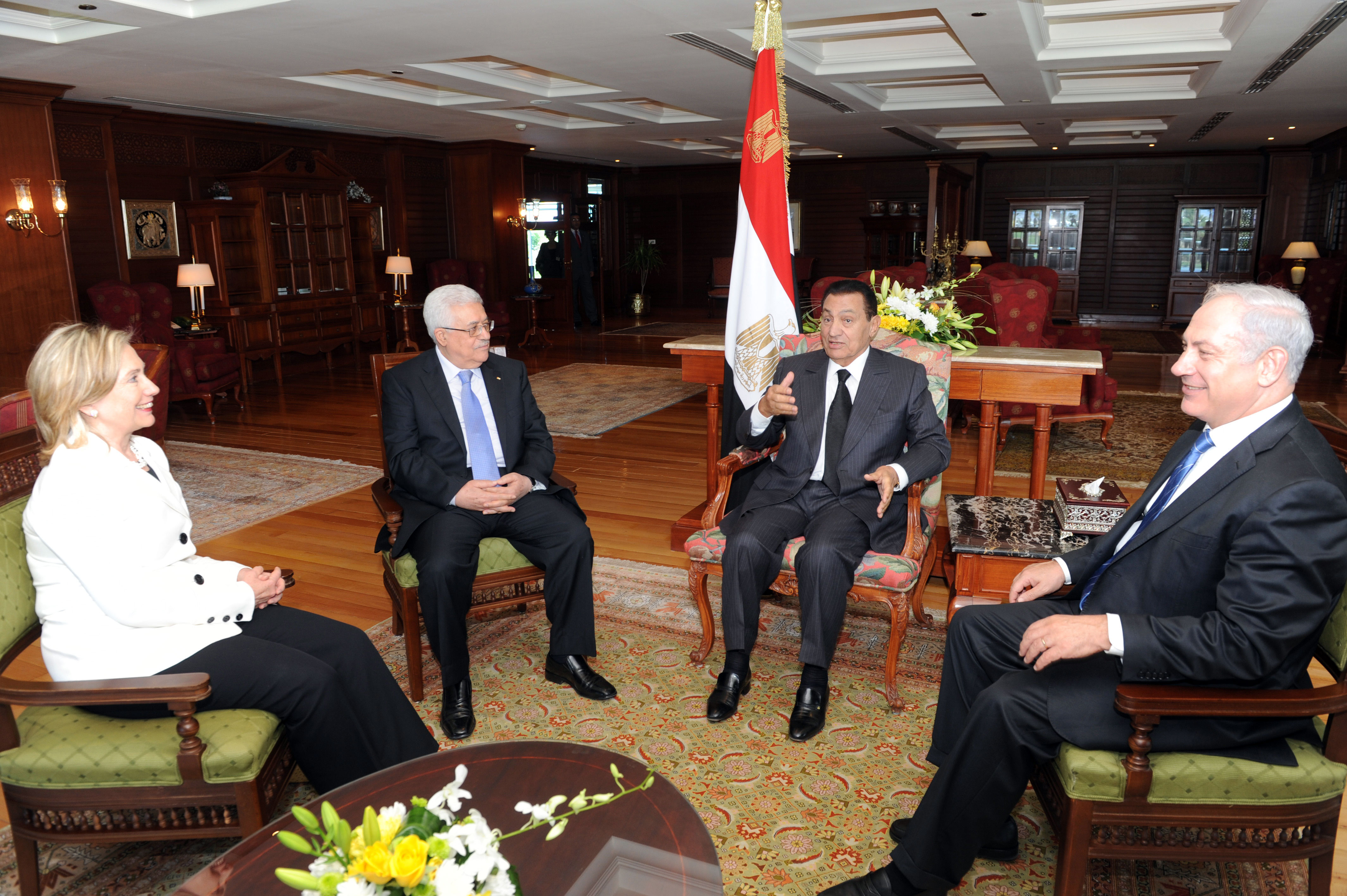 Egyptian President Hosni Mubarak welcomes (left to right) U.S. Secretary of State Hillary Rodham Clinton, Palestinian President Mahmoud Abbas, and Israeli Prime Minister Benjamin Netanyahu in Sharm El Sheikh, Egypt, on September 14, 2010.